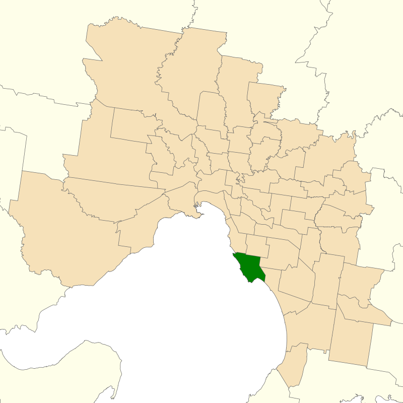 Location of the Victorian electoral district of Sandringham (dark green) in the Greater Melbourne area.